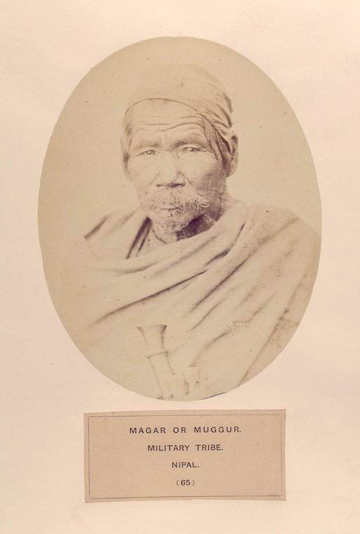 This image is from the book, The People of India, a series of photographic illustrations, with descriptive letterpress, of the races and tribes of Hindustan, originally prepared under the authority of the government of India, and reproduced. by J. Forbes Watson and John William Kaye between 1868 - 1875.